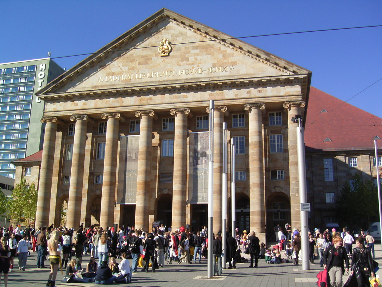 Front of Stadthalle Kassel during Connichi 2005.